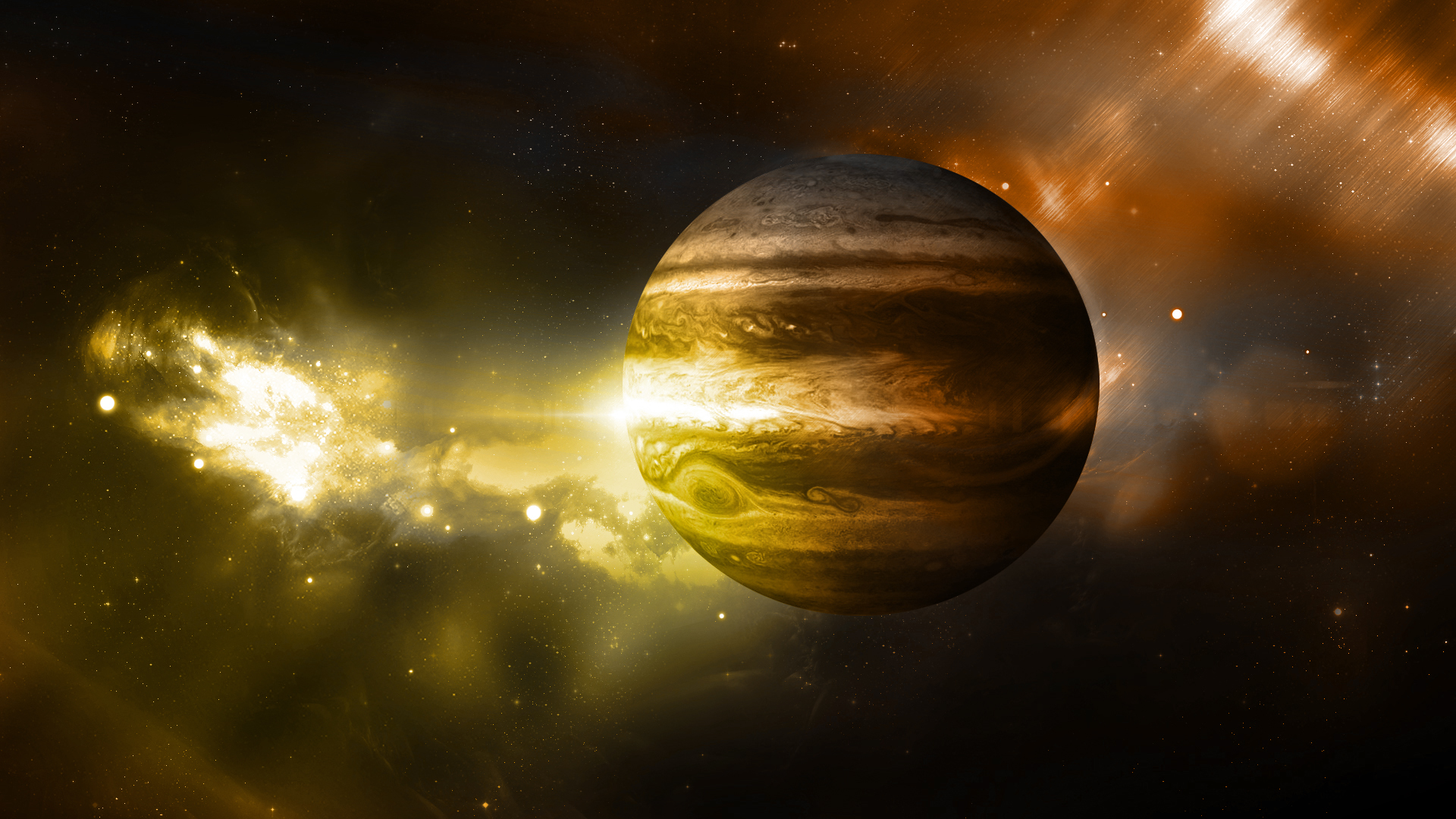 JUPITER proccessed image